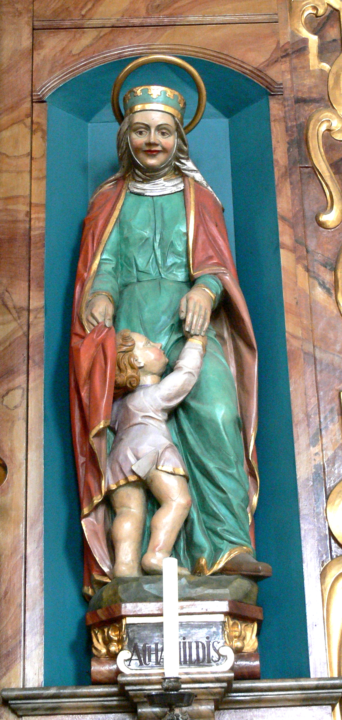 Schwabach (Bavaria) . Catholic church of Saint Sebald ( 1850 ) - Altar of Mary: Saint Achahildis of Wendelstein.